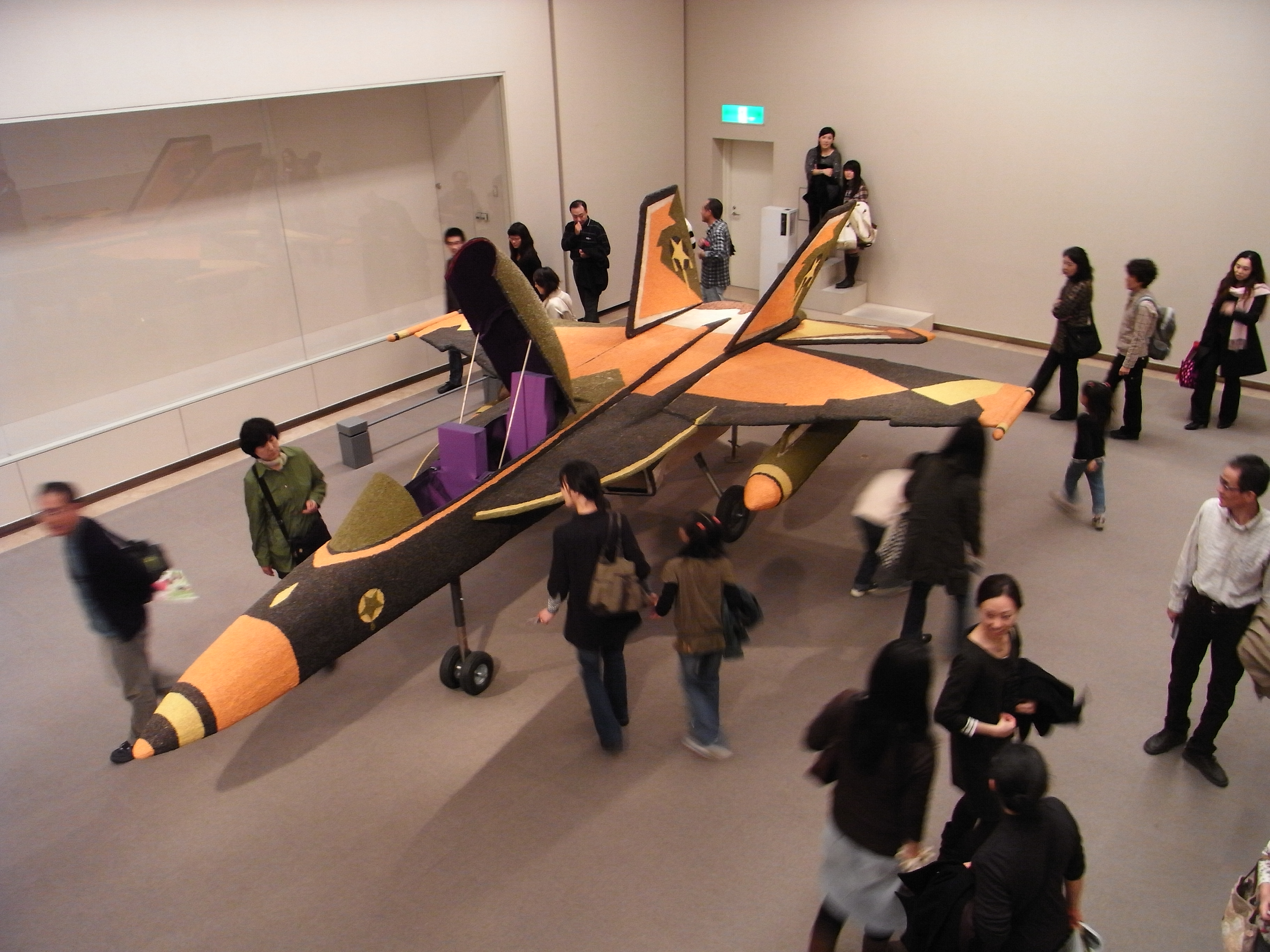 The `Sucker'wfp21` aircraft sculptural installation on view at Aichi Prefectural Museum of Art in Nagoya, Japan